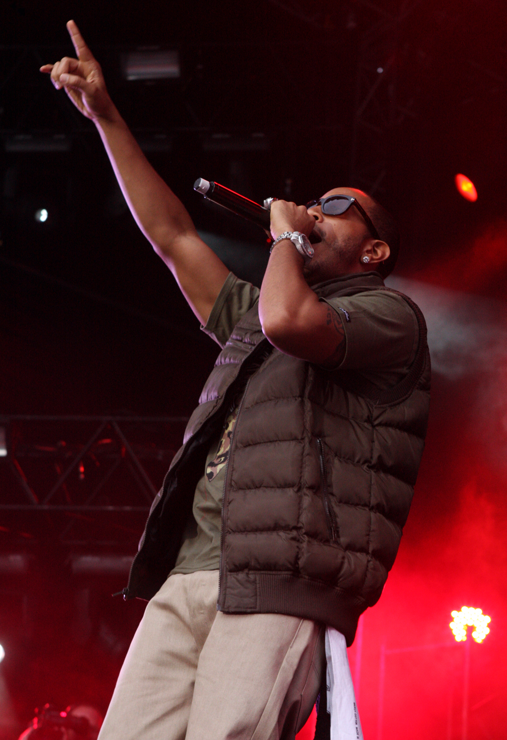 Ludacris Performs at Supafest 3 Sydney, Australia 2012.